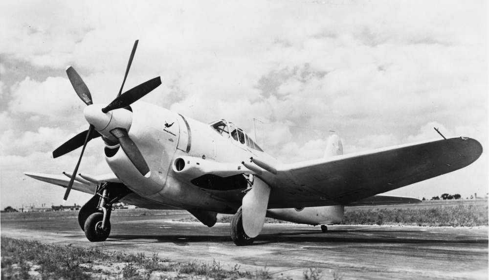 PictionID:41545924 - Title:Ray Wagner Collection Image - Catalog:16_000509 Curtiss XF14C-2 03183 - Filename:16_000509 Curtiss XF14C-2 03183.tif - Image from the Ray Wagner Collection. Ray Wagner was Archivist at the San Diego Air and Space Museum for several years and is an author of several books on aviation --- ---Please Tag these images so that the information can be permanently stored with the digital file.---Repository: San Diego Air and Space Museum